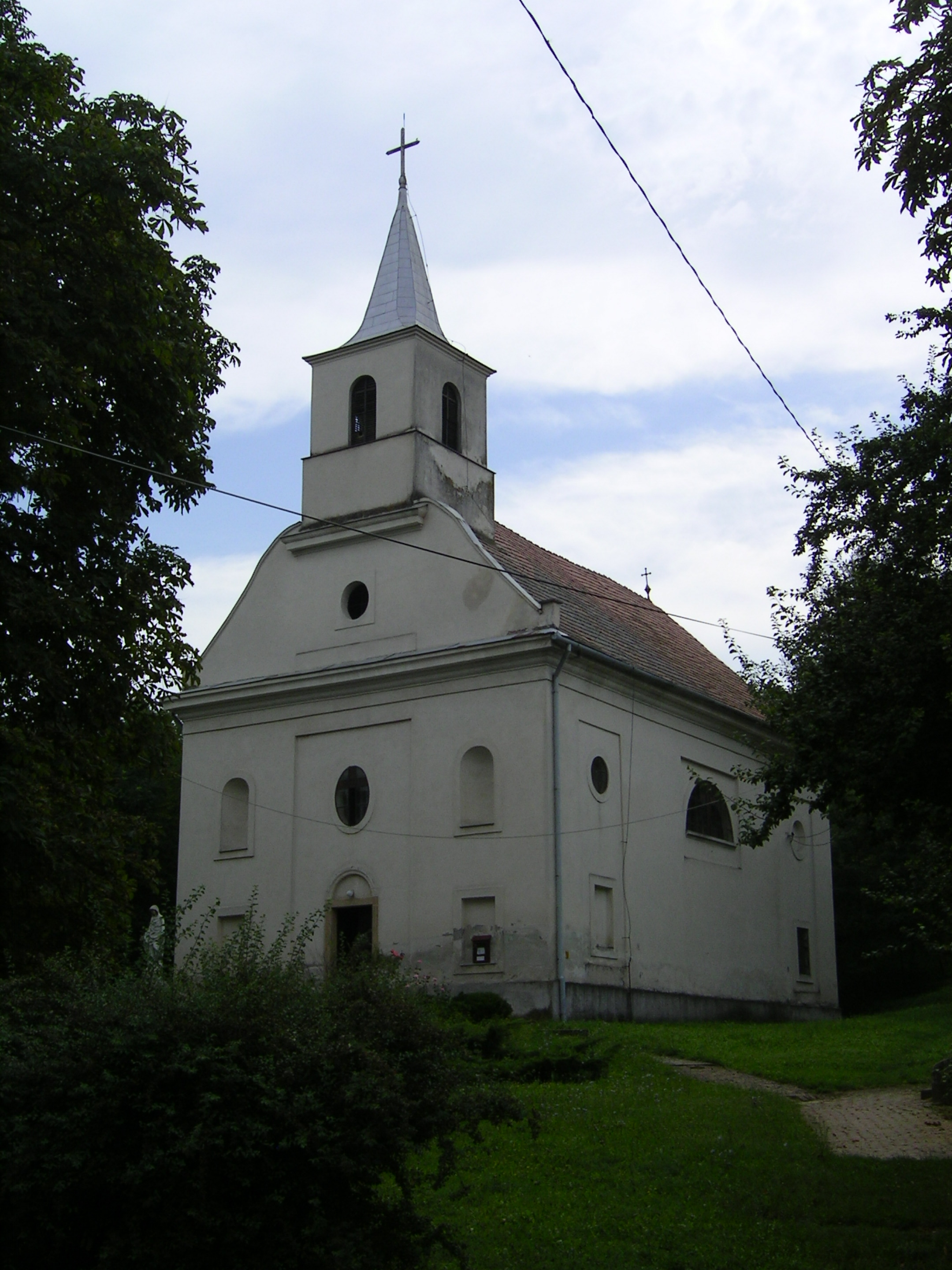 Kisboldogasszony Roman catholic church in Kisbudmér, Hungary